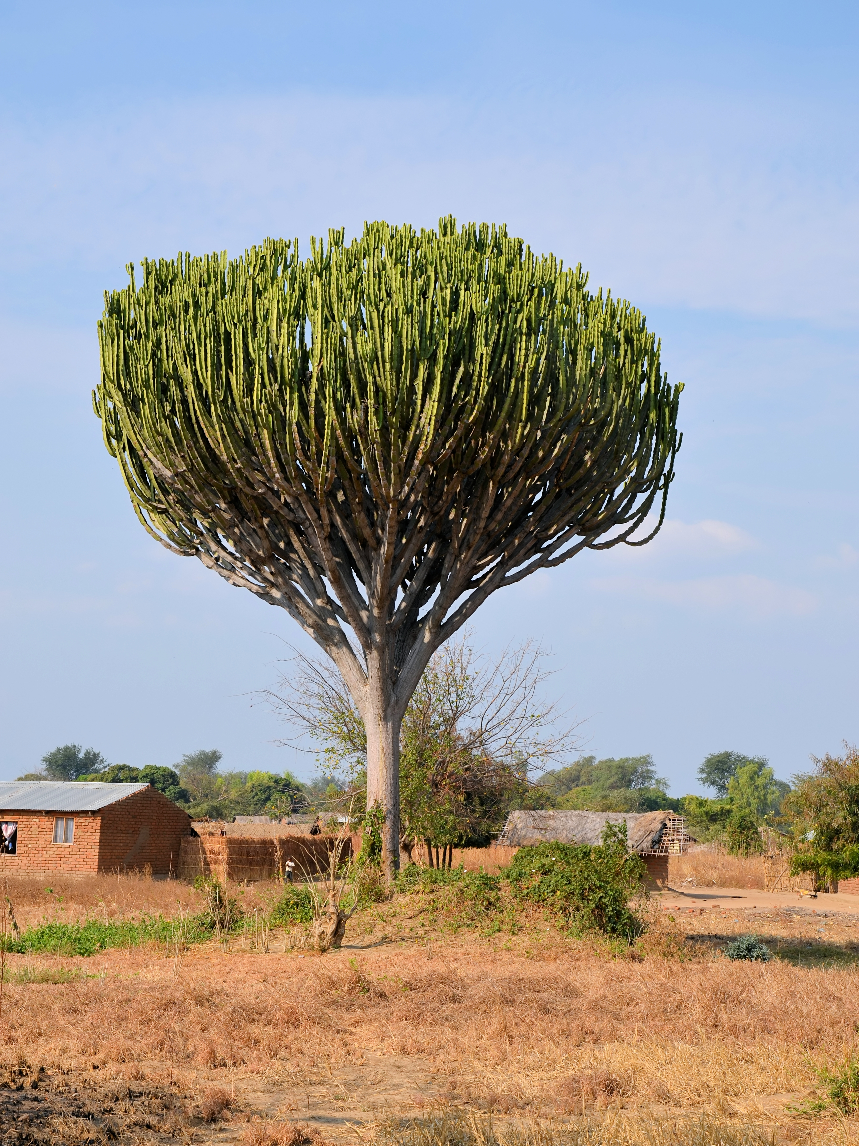 Common tree euphorbia between Monkey Bay and Mangochi, Malawi